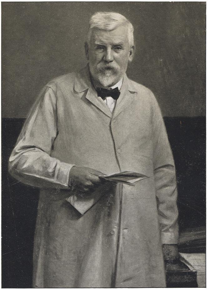 Julius von Hochenegg